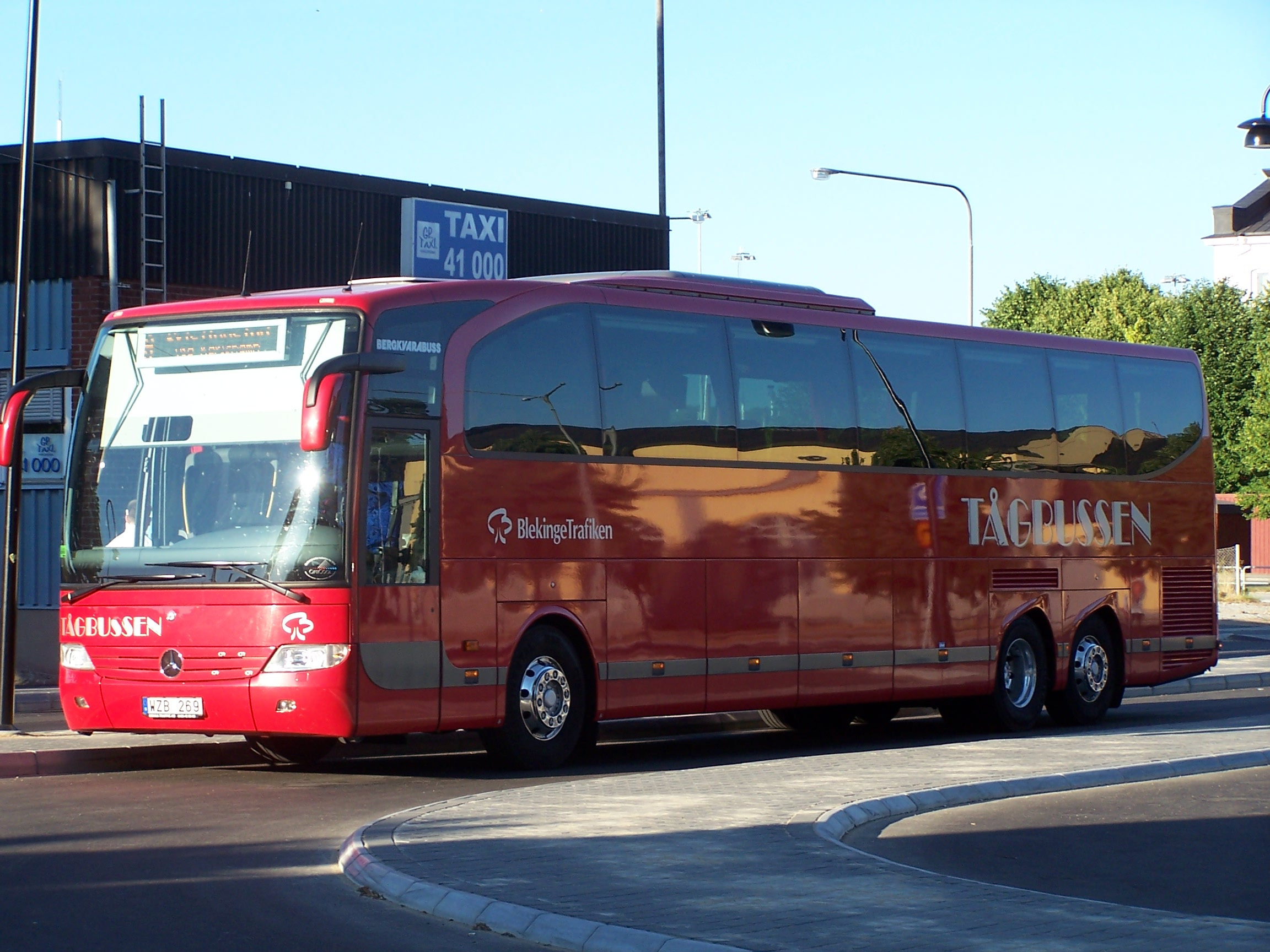 Tågbussen - coaches replaced the trains during the electrification of Kustbanan. The coach was a red Mercedes-Benz O580-17RHD Travego L (reg. WZB 269), manufactured year 2005.